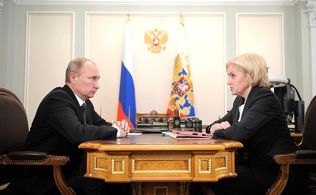 With Deputy Prime Minister Olga Golodets